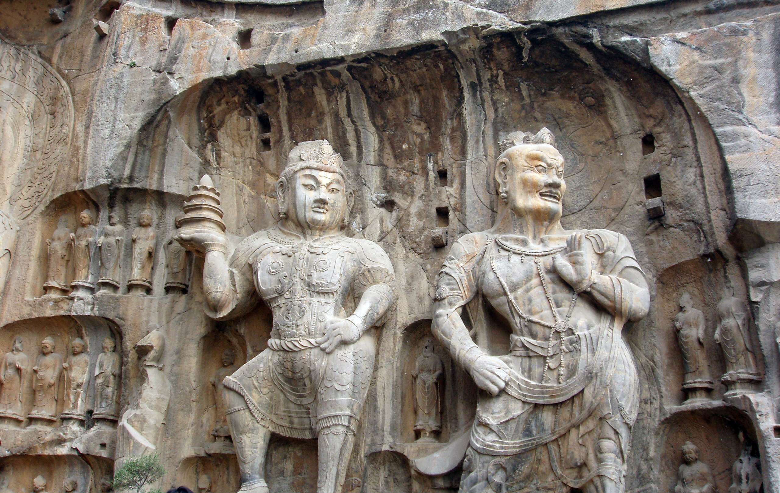 Buddhist statues of Dragon Gate Cave in Luoyang,China